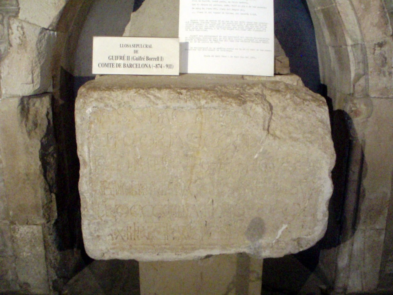 Stone from the tomb of Guifre II, count of Barcelona, in Sant Pau del Camp monastery, Barcelona, Catalonia, 10th cent.